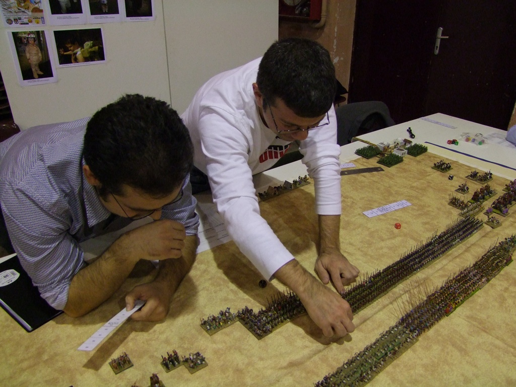 Raffia battle in DBMM